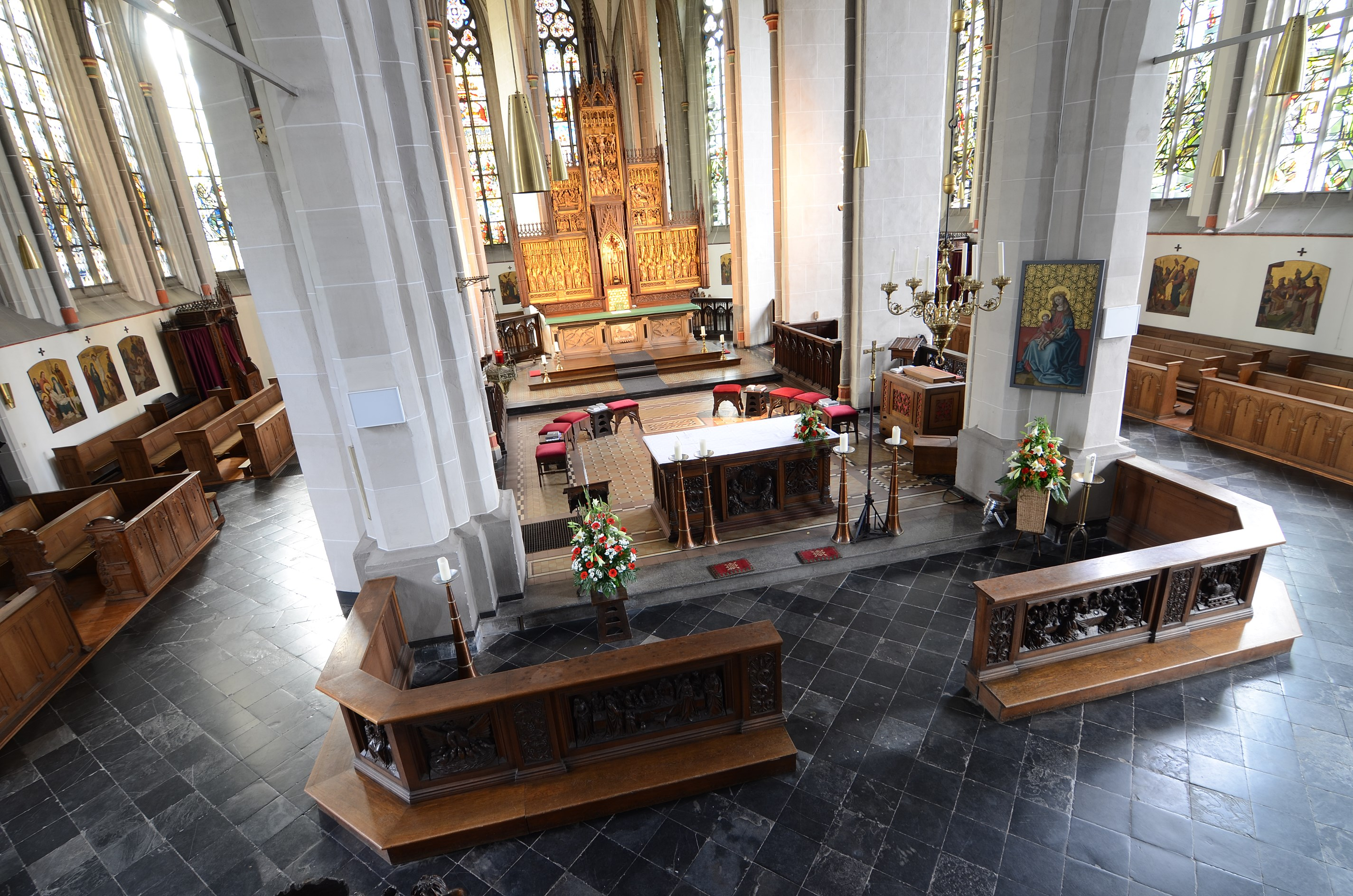 Rheinberg (North Rhine-Westphalia, Germany) – Catholic Saint Peter Church – choir This image shows a heritage building in Germany, located in the North Rhine-Westphalian city Rheinberg (no. 79). This photograph was taken with a Nikon D7000